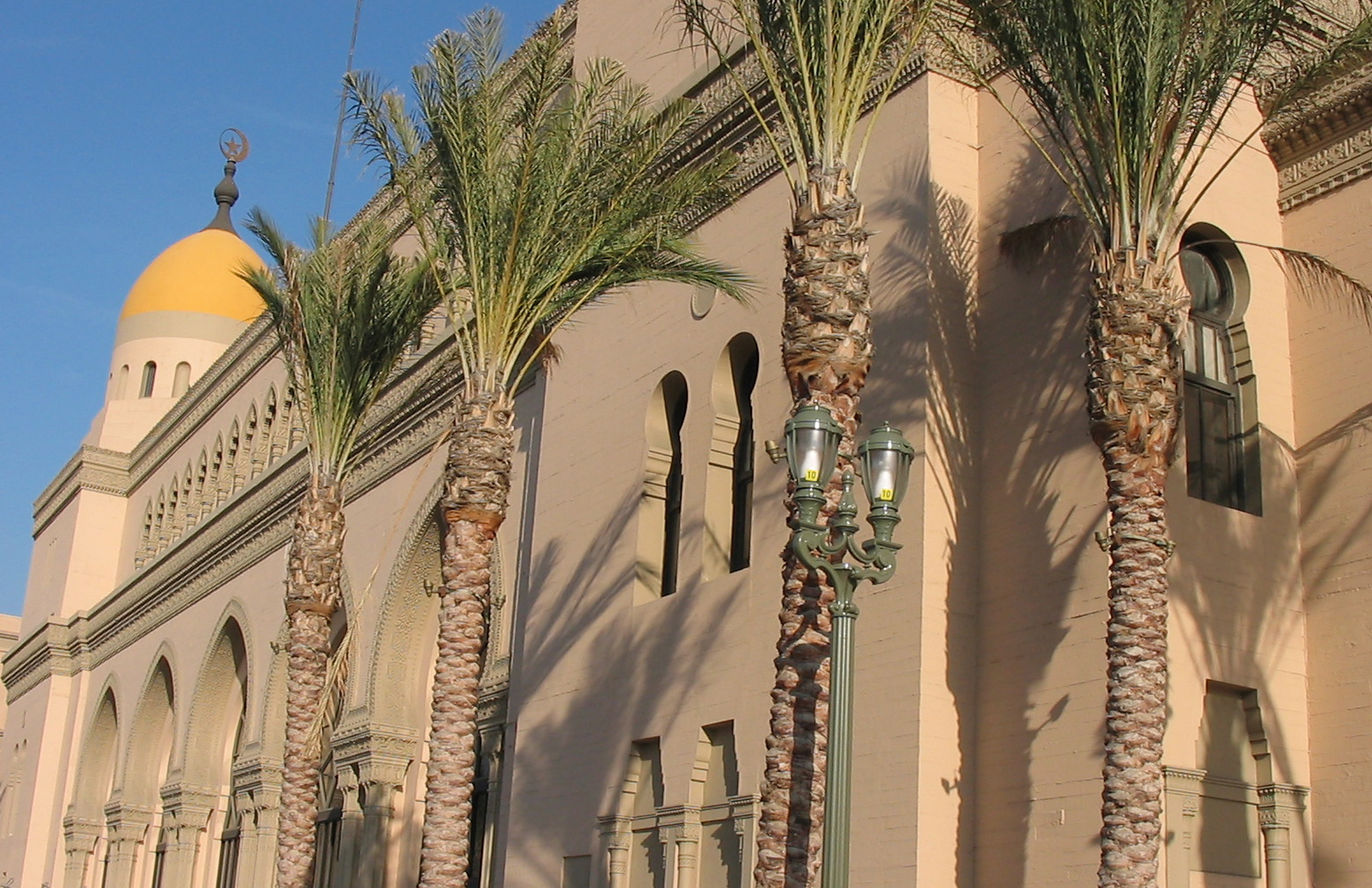 Picture of the front of the Shrine Auditorium in Los Angeles.